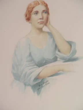 Portrait of Narcissa Whitman